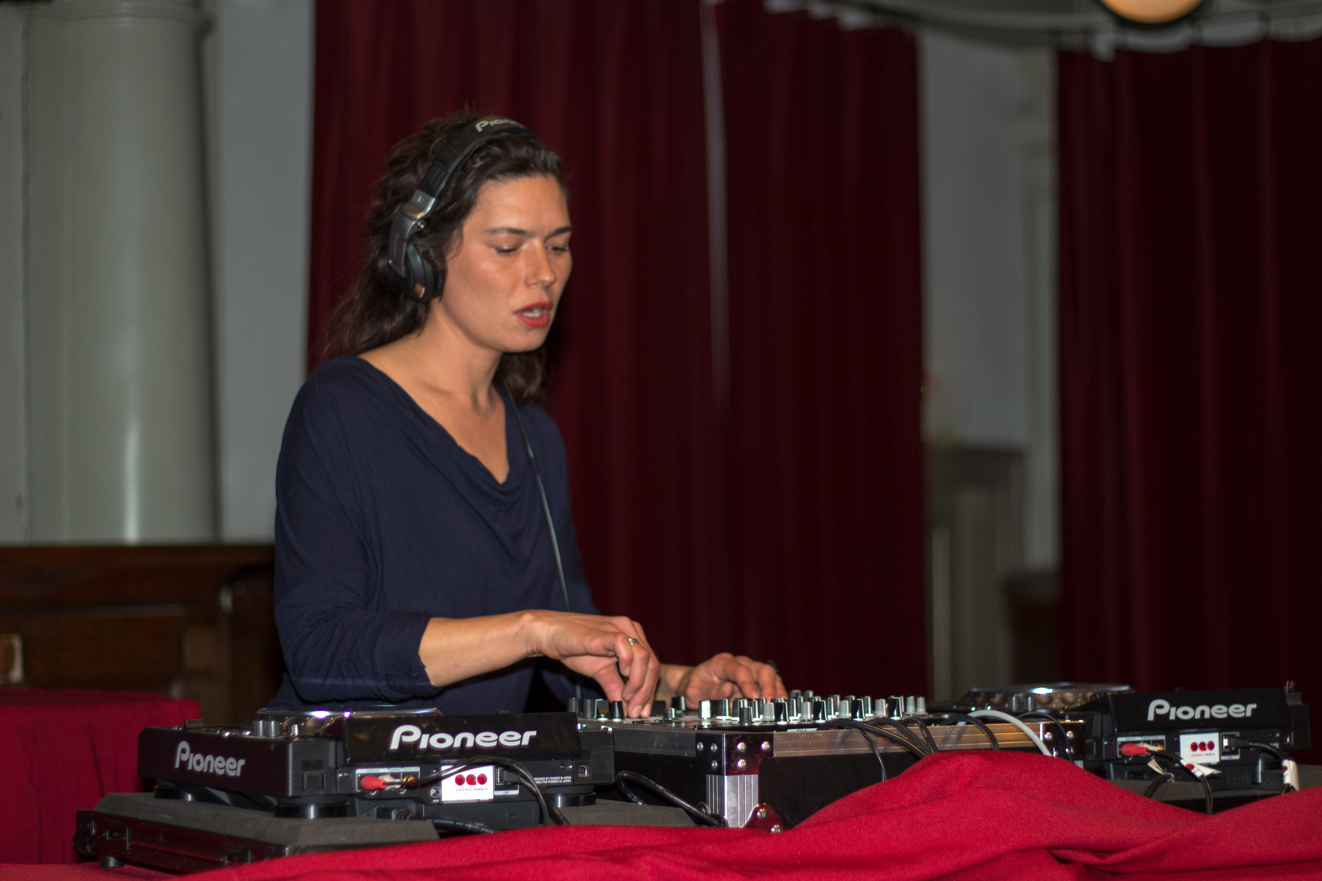 DJ Isis at the fundraising party for the second volume of the book "1001 vrouwen"